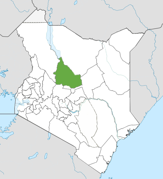 Samburu County location map